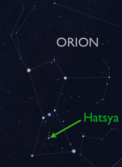 The Star Hatsya in the Constellation Orion